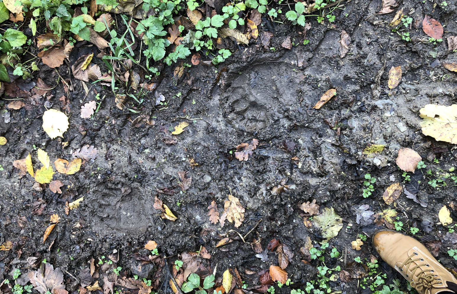 Bears paws seen near the Perak creek on the trail to Motka